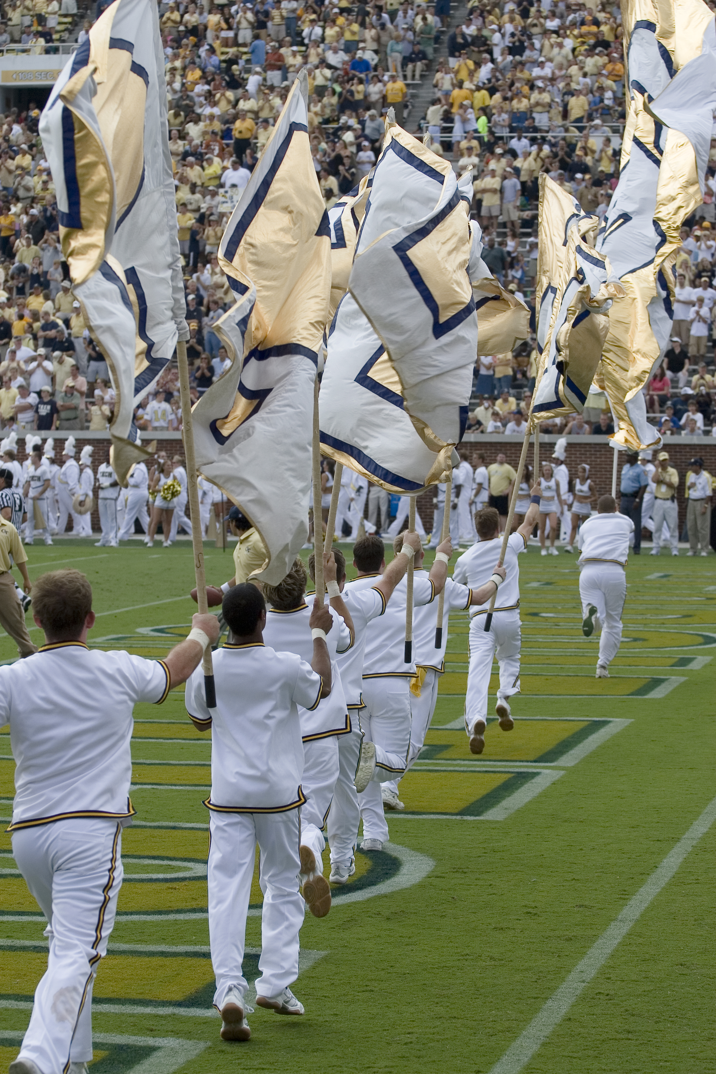 Georgia Tech displays their colors after a score